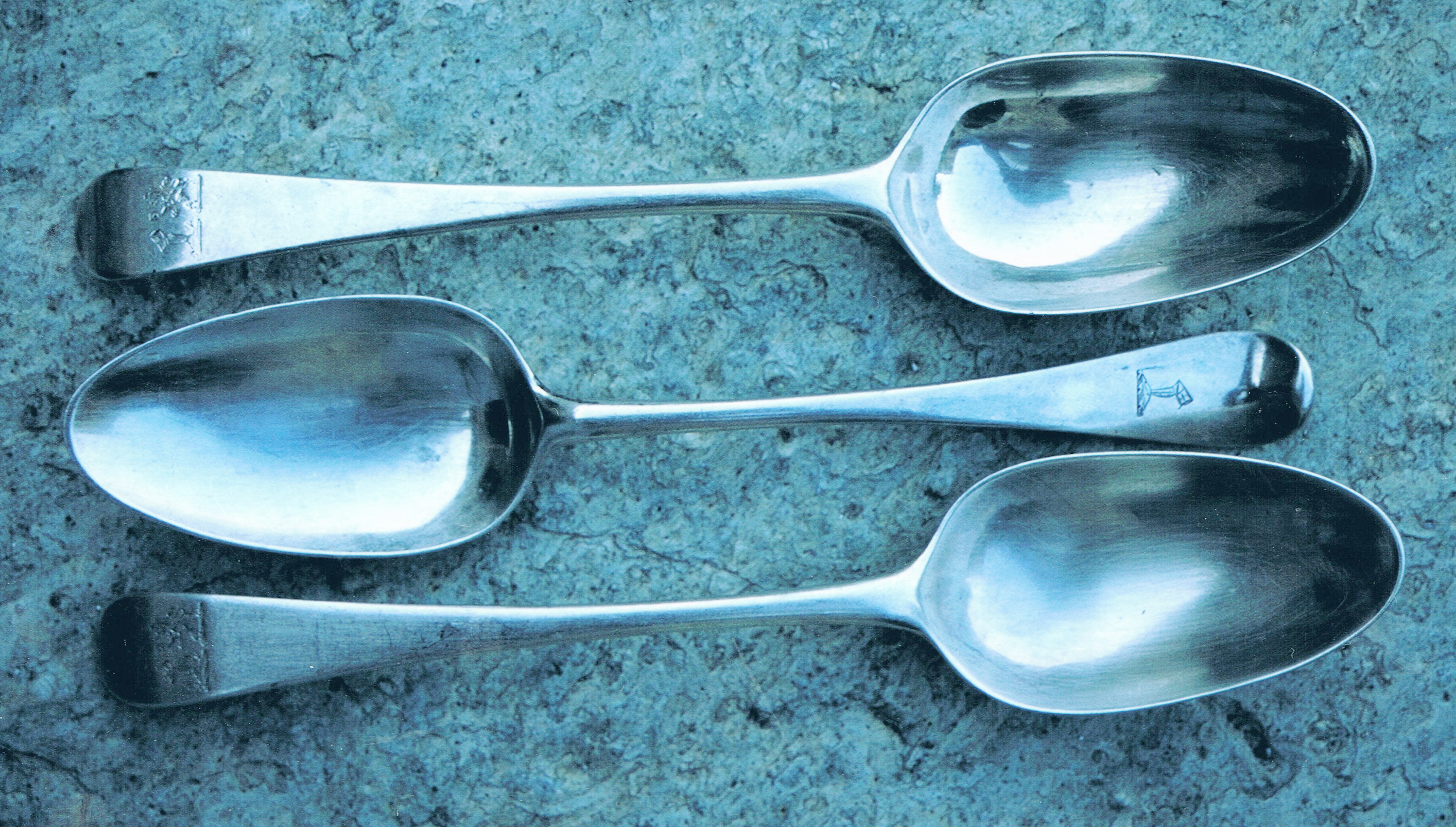 photo (Pikachu) silver spoons, August 2007.Rodolph 10:12, 25 October 2007 (UTC)